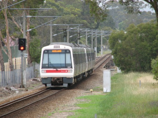 A Midland line train is heading to Midland.